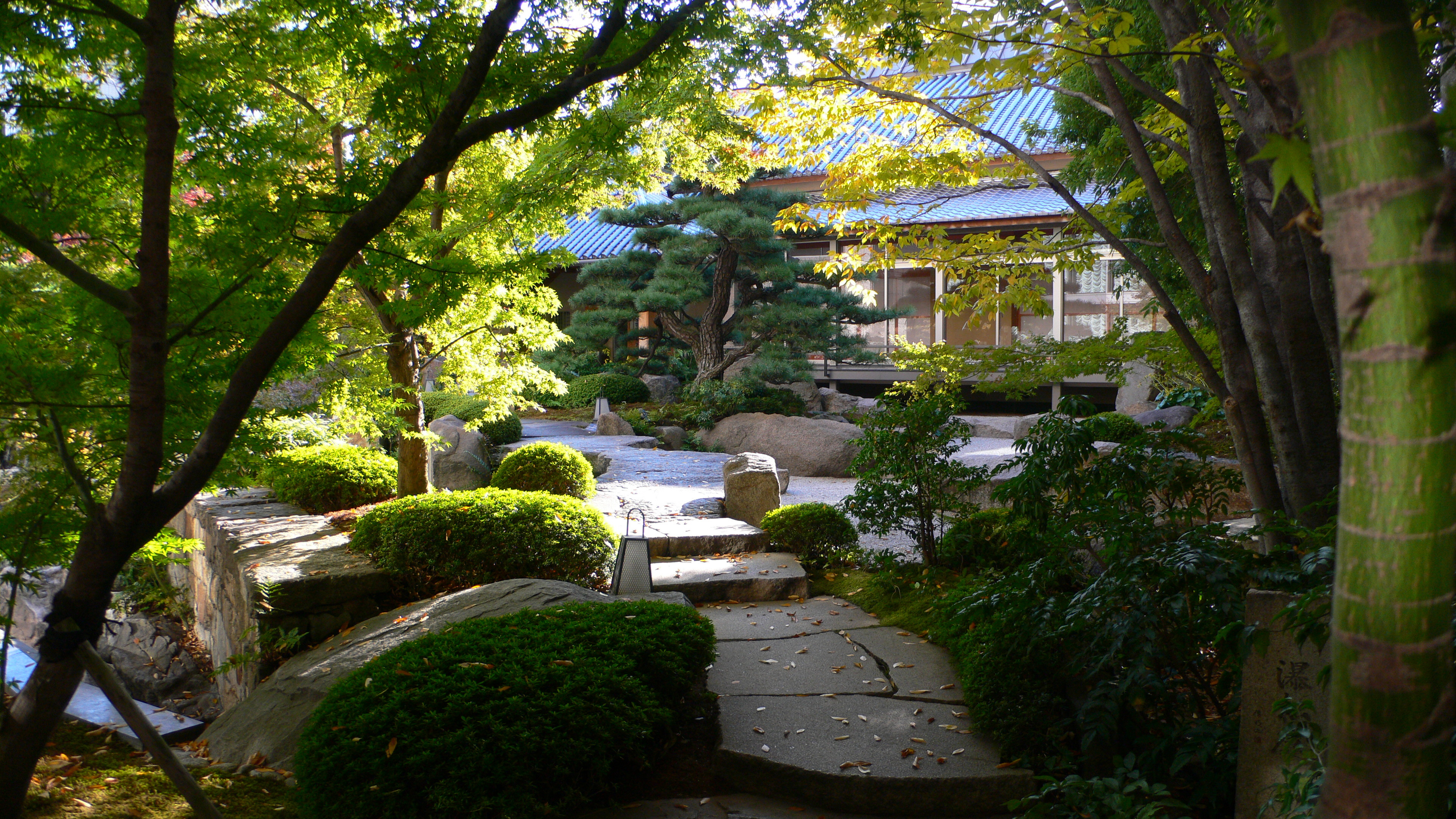 Imabari Kokusai Hotel Garden in Imabari, Ehime pref., Japan.